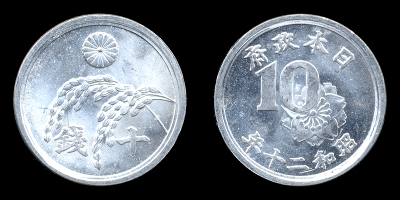 10sen-S20